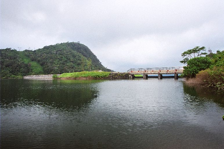 Anathodu Dam